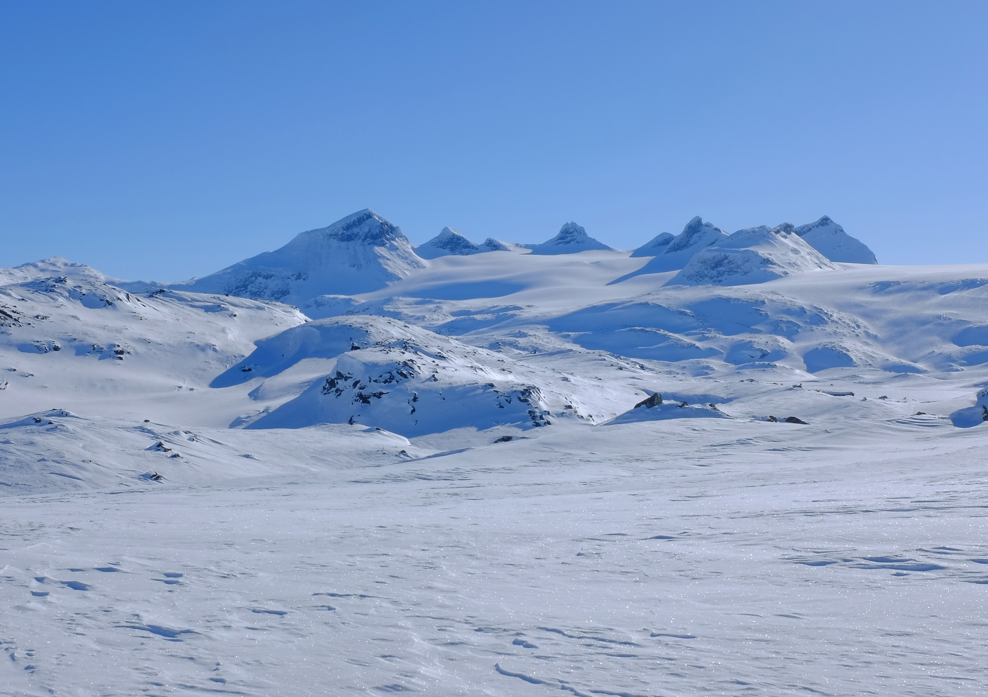 Smørstabtindan mountains and Smørstabbreen glacier in Jotunheimen Nasjonal Park, Lom, Oppland, Norway. Picture taken from the northwest.